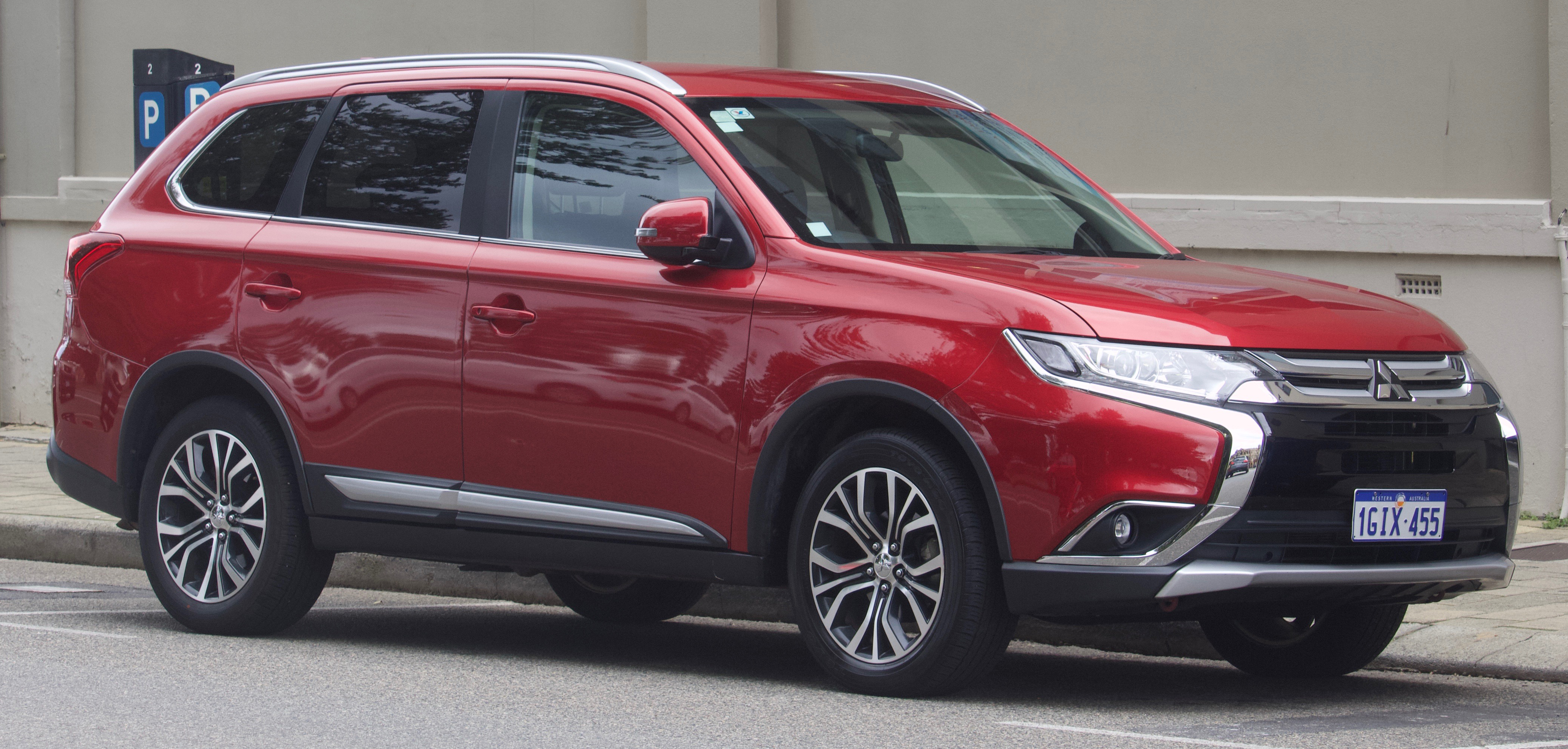 2017 Mitsubishi Outlander (ZK MY17) LS 2WD wagon. Photographed in Fremantle, Western Australia, Australia.